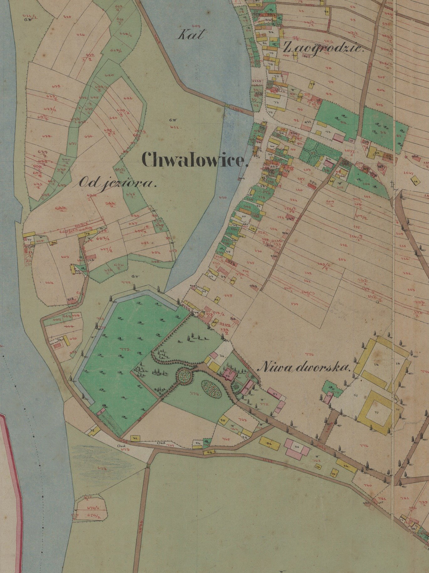 Manor house in Chwalowice on a map from in 1851